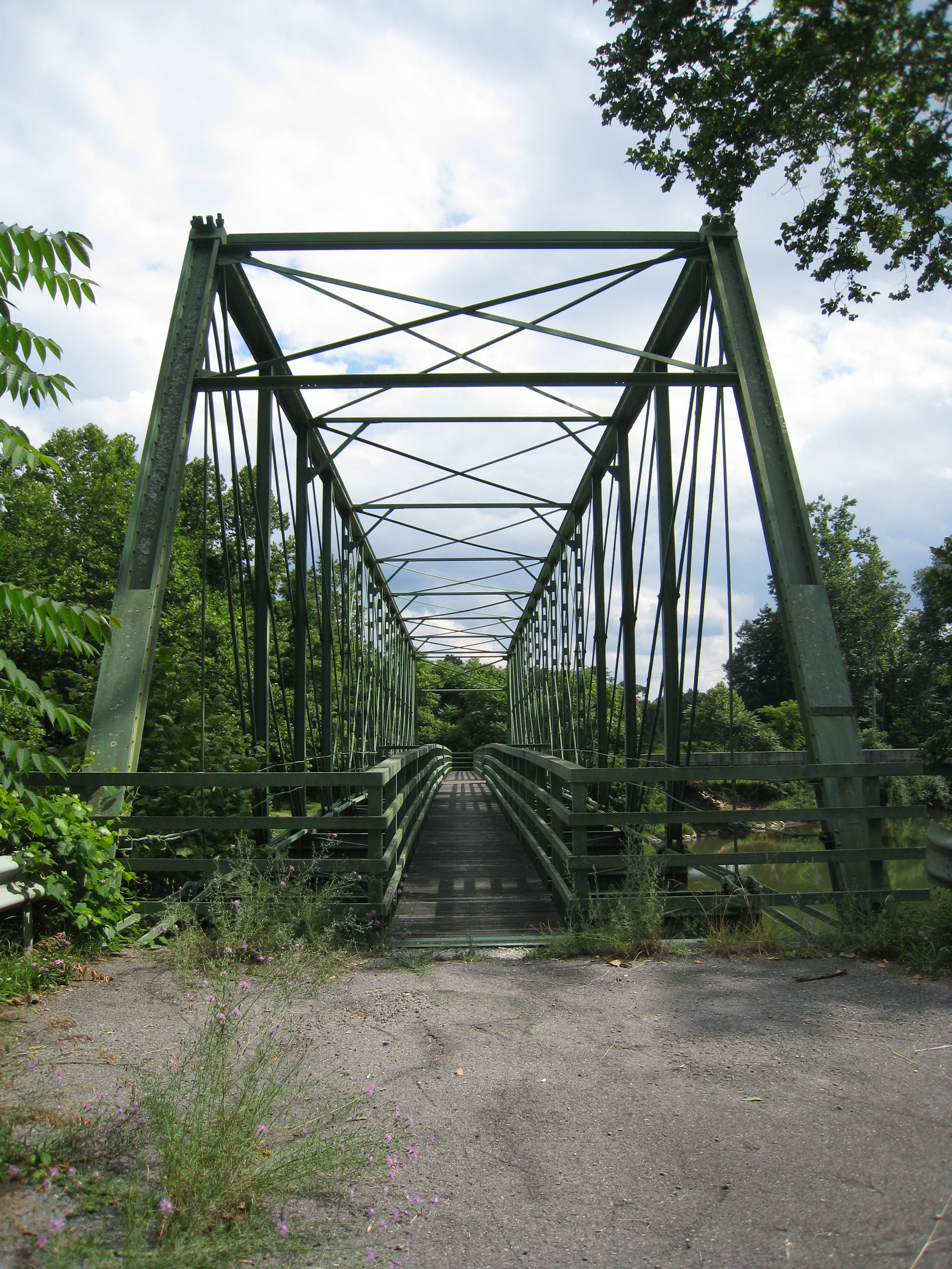 The Old Whipple Truss is an 1874 truss bridge on the Cacapon River at Capon Springs, West Virginia, United States. The Whipple Truss was originally constructed across the South Branch Potomac River near Romney and was re-erected at its present site in 1938 where it was in use until 1991.